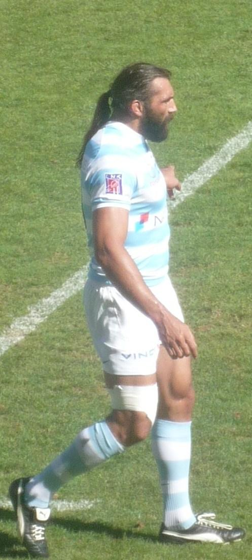 Sébastien Chabal with Métro Racing 92 facing RCT during the french rugby competition, Top 14.